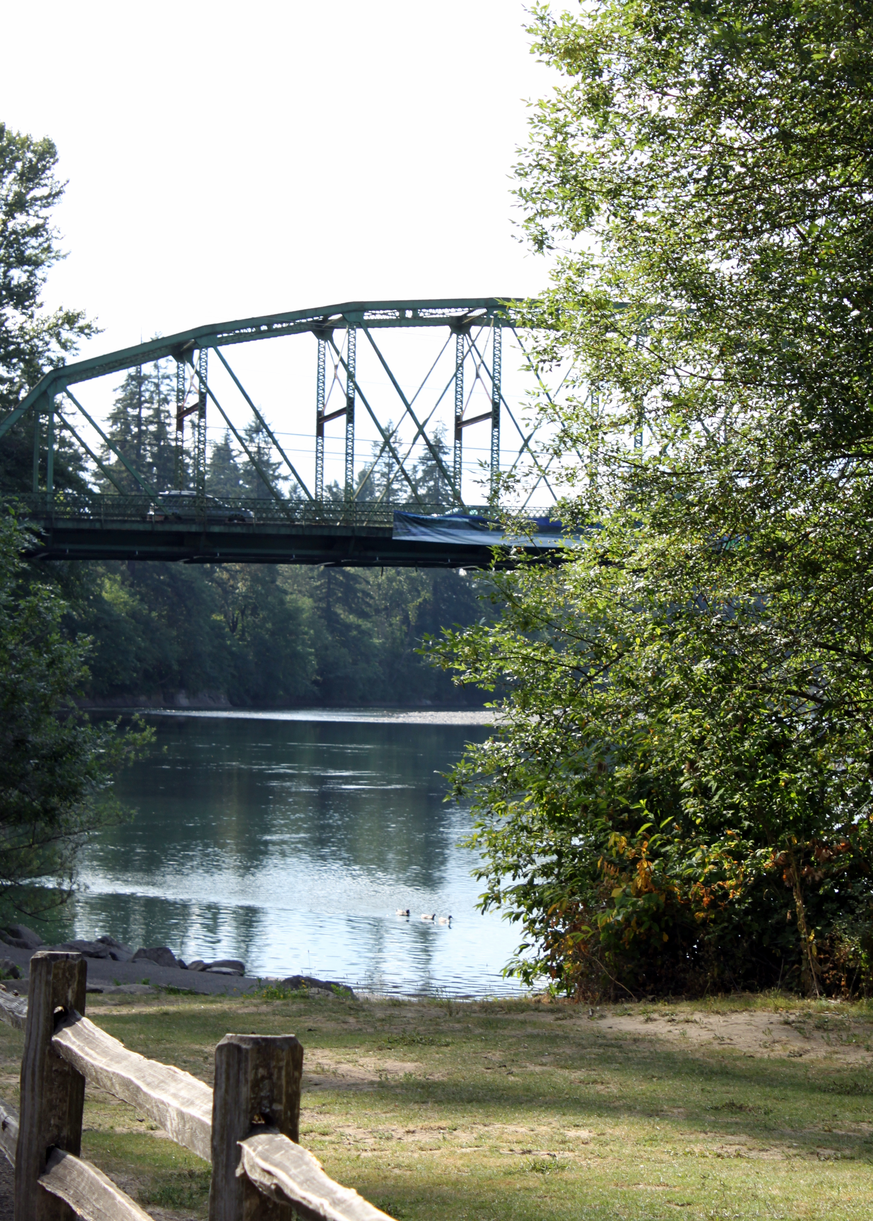 Carver Park and Carver Bridge with ducks in the Clackamas River in Carver, Oregon. Was a filming location of a memorable scene in Twilight (2008 film).